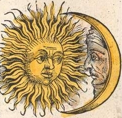 scan from original book, Nuremberg chronicle, Hartmann Schedel, 1493